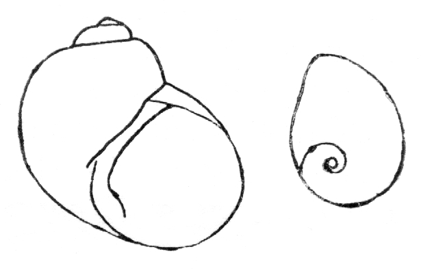 drawing of the shell of Lithoglyphus naticoides